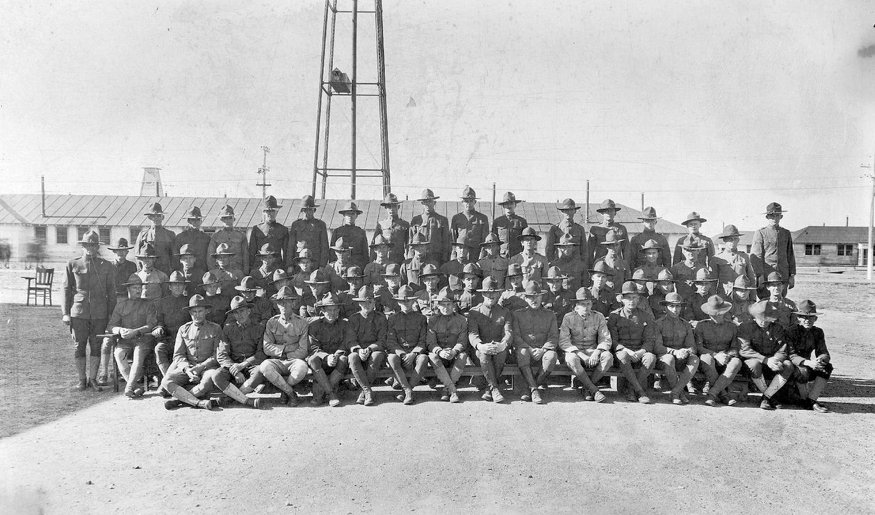 Catalog #: 10_0017383 Title: World War One 136th ""C"" Squadron at Love Field, Dallas Texas Date: 1914-1918 Additional Information: World War One 136th ""C"" Squadron Love Field, Dallas Texas Tags: World War One 136th ""C"" Squadron Love Field, Dallas Texas, World War One 136th ""C"" Squadron Love Field, Dallas Texas, 1914-1918 Repository: San Diego Air and Space Museum Archive